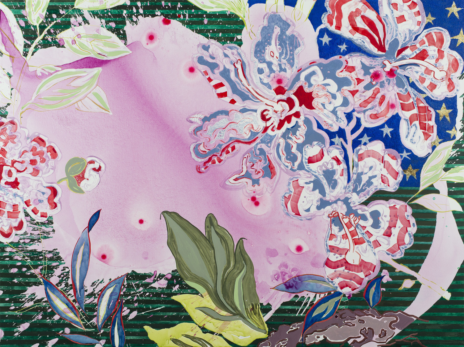 2016, Acrylic on linen, 54 x 72 inches